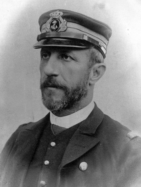 José Ferrándiz y Niño (1847–1918), Spanish admiral and minister